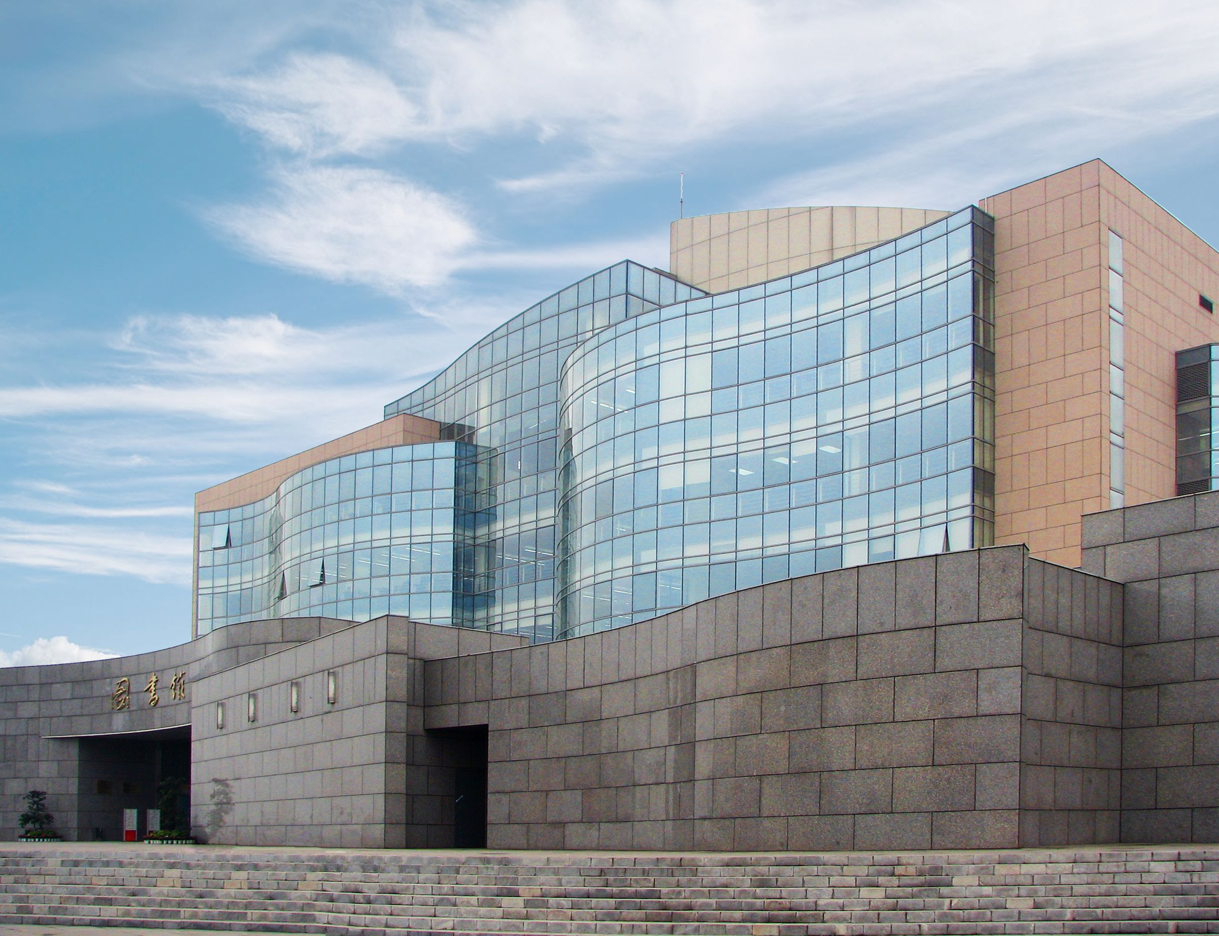 Jiang'an Library Entrance, Sichuan University, Cheng Du, China